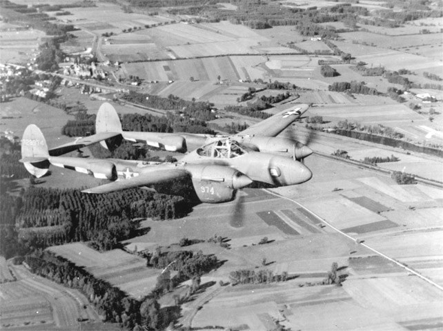 A USAAF Lockheed F-5E-2-LO Lightning (s/n 43-28974) reconnaissance plane photographed in flight, ca. 1944. The F-5 was the reconnaissance version of the P-38 fighter.